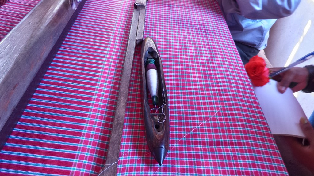 Photo of a shuttle which is used in handlooming found in pilikula heritage village Dakshinakannada,India